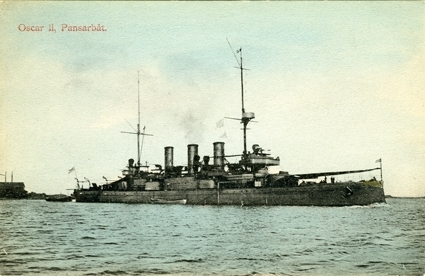 Postcard of Swedish coastal defence ship Oscar II by Karl Karlsson, Karlskrona. G. M. Ser. 117 N:o 13